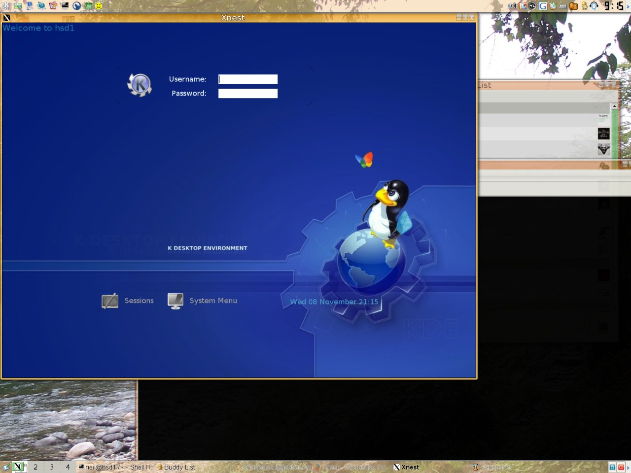 A screenshot of KDM running within an Xnest windew.